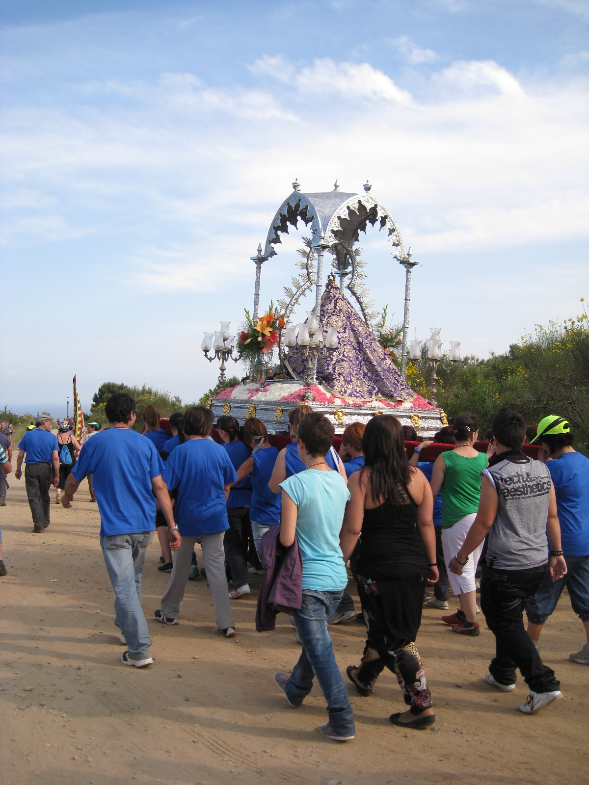 Romería de Ntra Sª de la Sierra